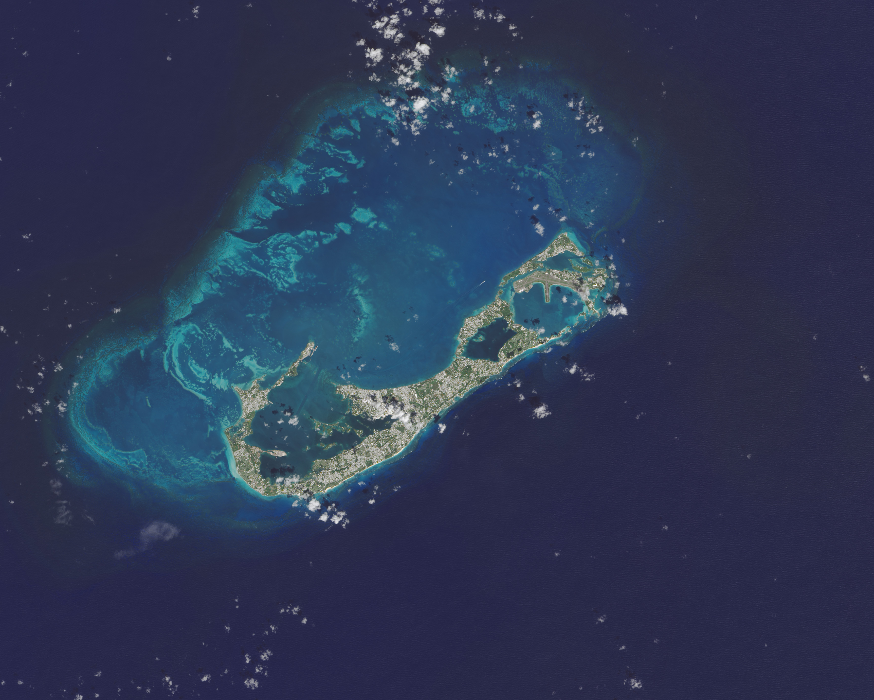 Bermuda seen by the Operational Land Imager on the Landsat 8 satellite.